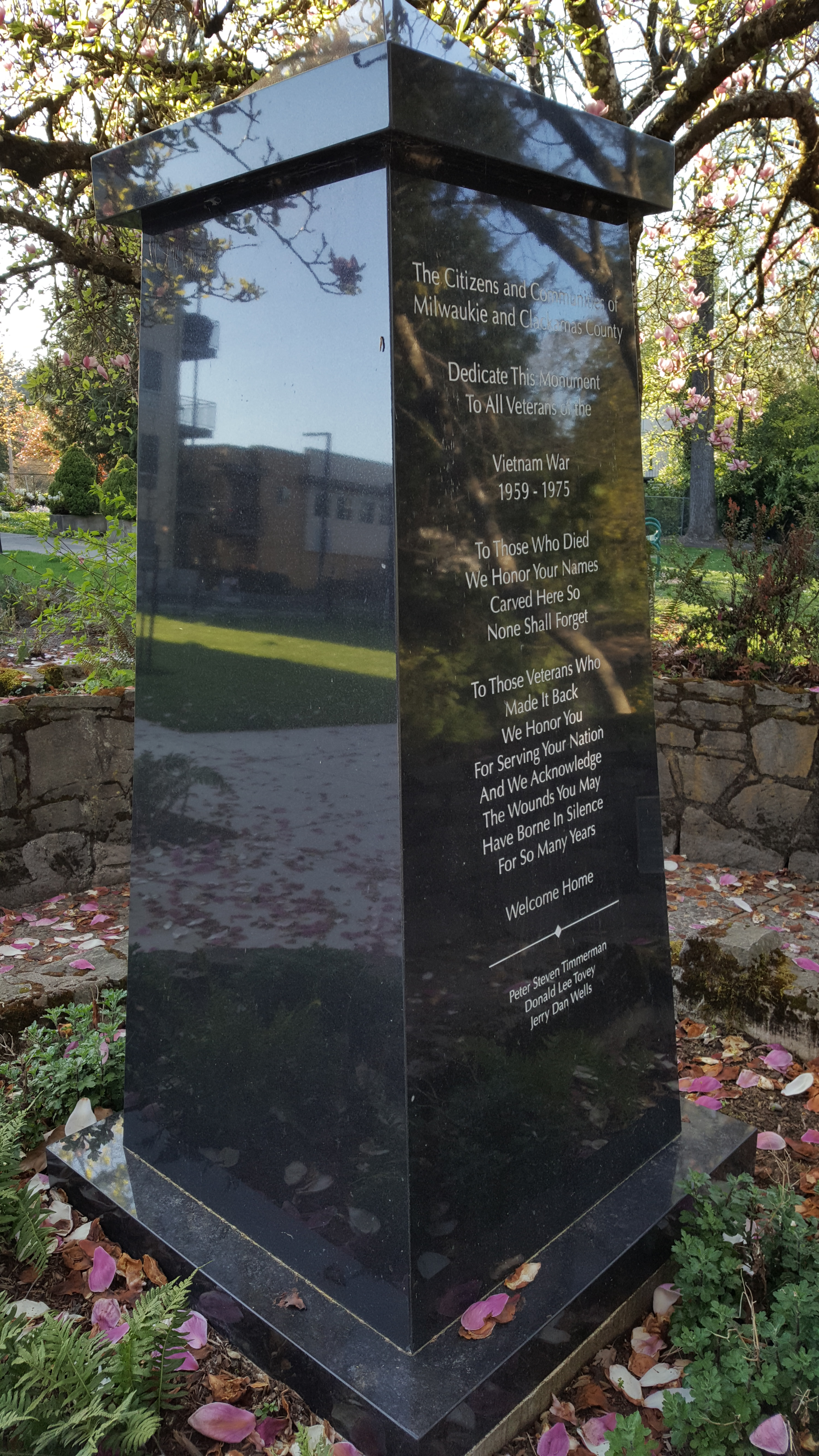 Vietnam War Memorial (Milwaukie, Oregon), April 2020